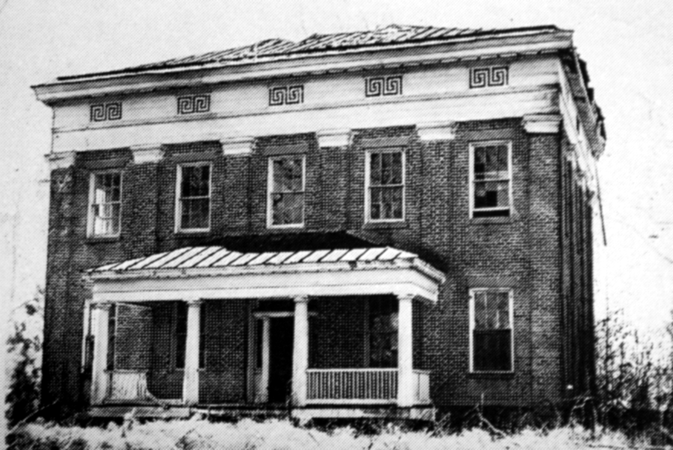 Elm Bluff Plantation, also known as the John Jay Crocheron House, in rural Dallas County, Alabama on the Alabama River. Built in 1845.